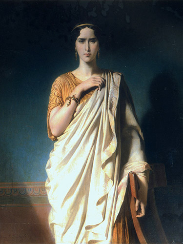 Full-length portrait painting of the French actress Rachel